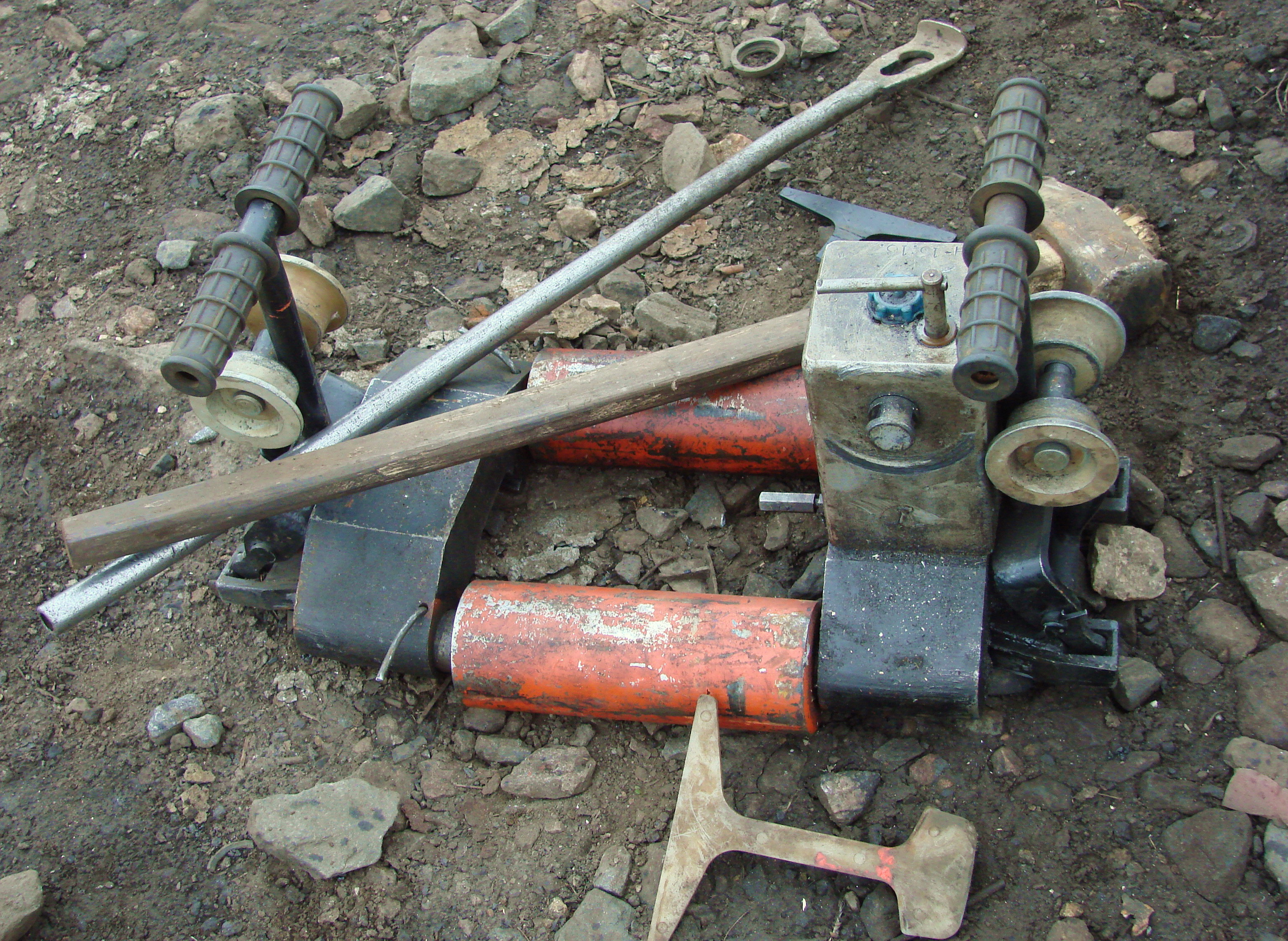 Russian Railways, rail service tool